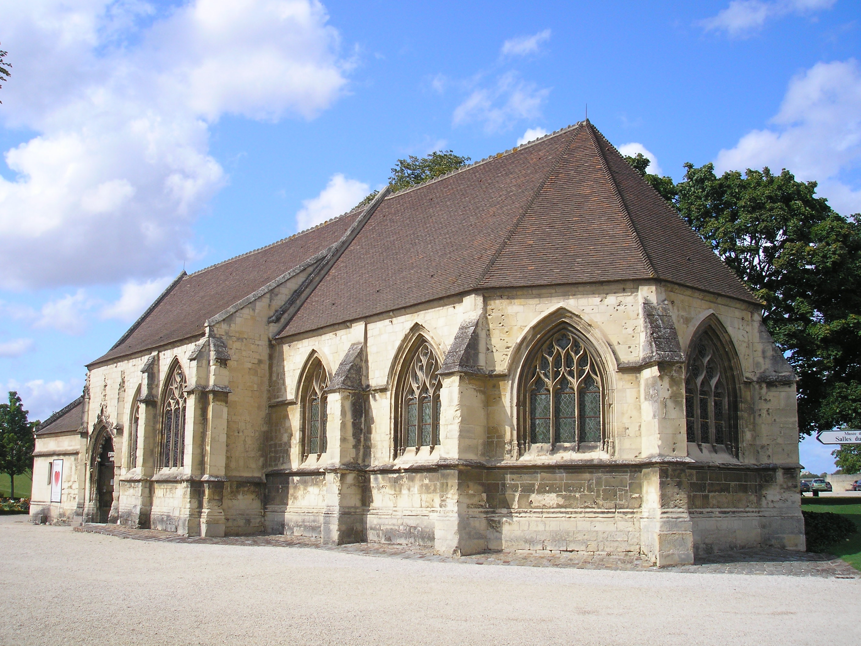 Apse and southern facade of Saint-Georges-du-château church in Caen (Calvados, France).